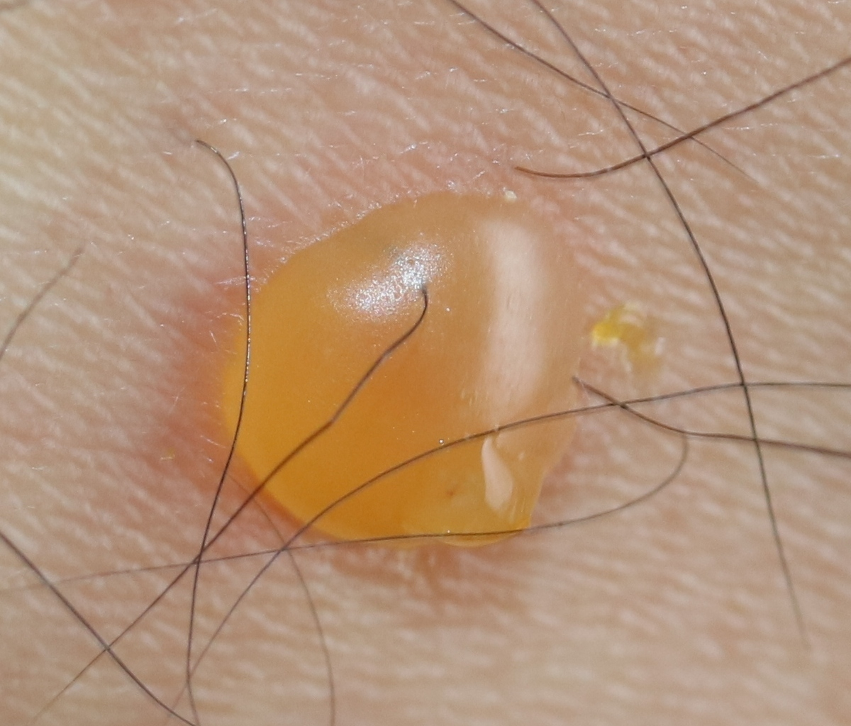 Blister on leg by Haemadipsa zeylanica in Japan.